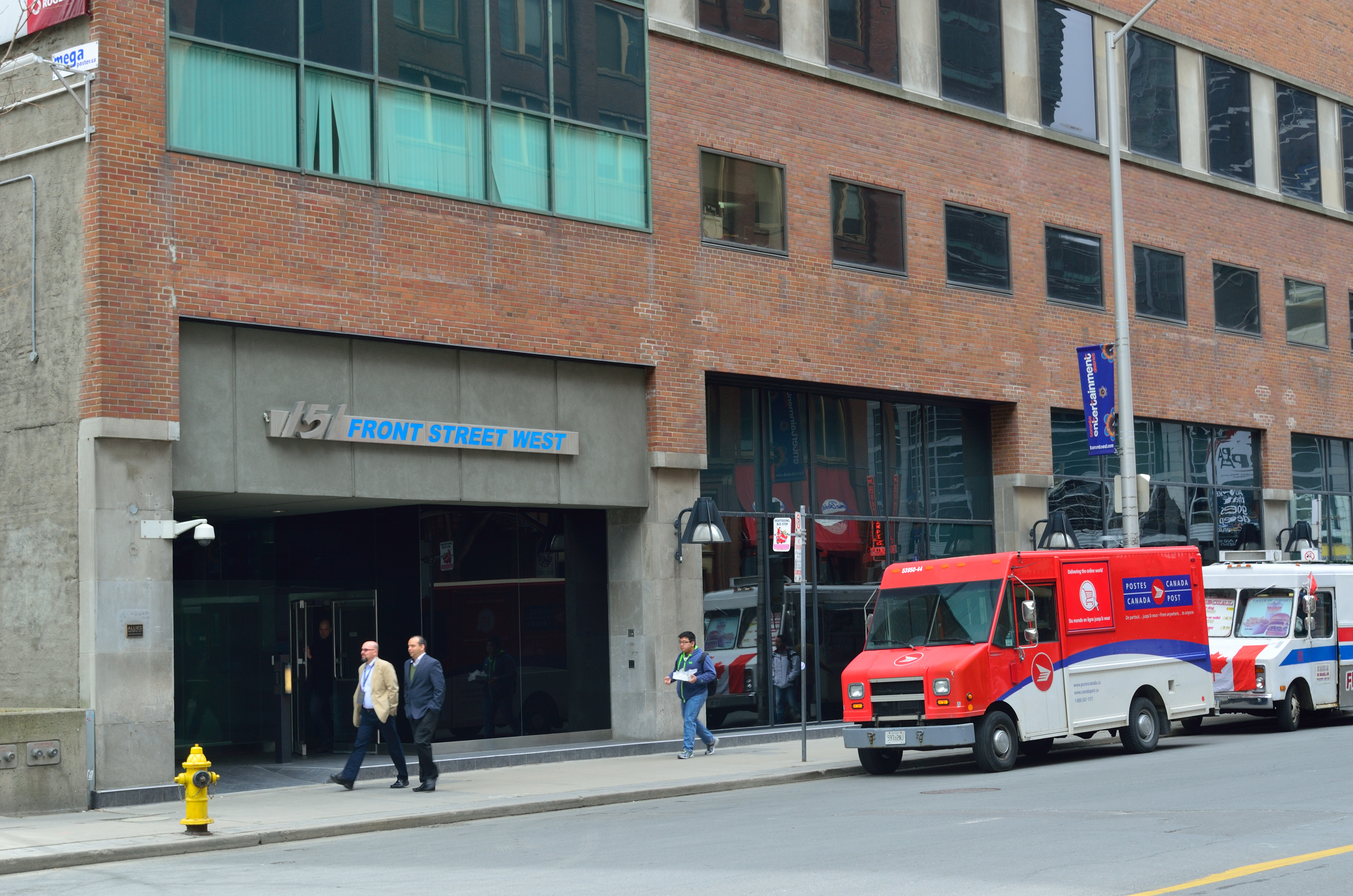 151 Front Street West. Telecommunications hub and carrier hotel. Major infrastructure inside the building includes: Torix, Equinix's Toronto TR1 datacenter, and Cologix's Toronto Data Center (TOR 1).